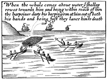 1611 engraving of a Two flue harpoon being used.